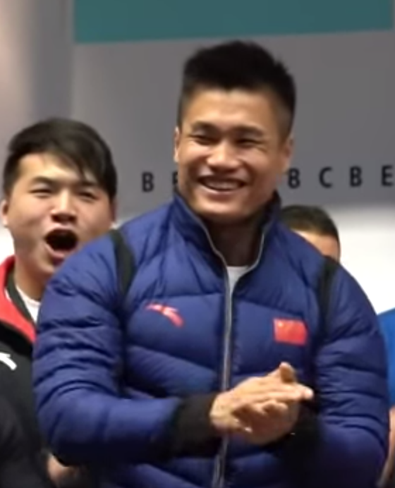 Lu Xiaojun with the Chinese weightlifting team at the 49th Challenge 210 in late 2019.